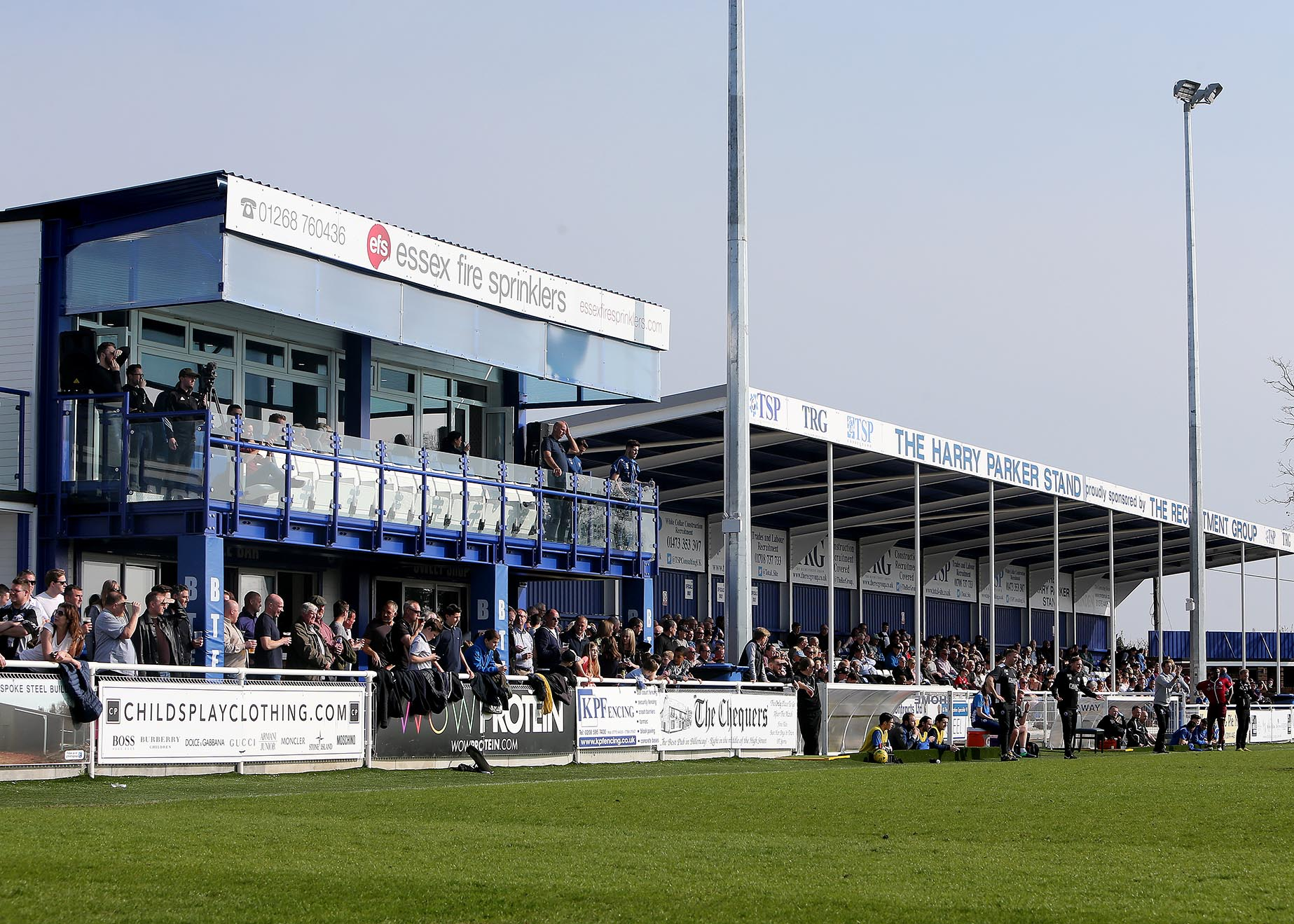 Harry Parker Stand at AGP Arena